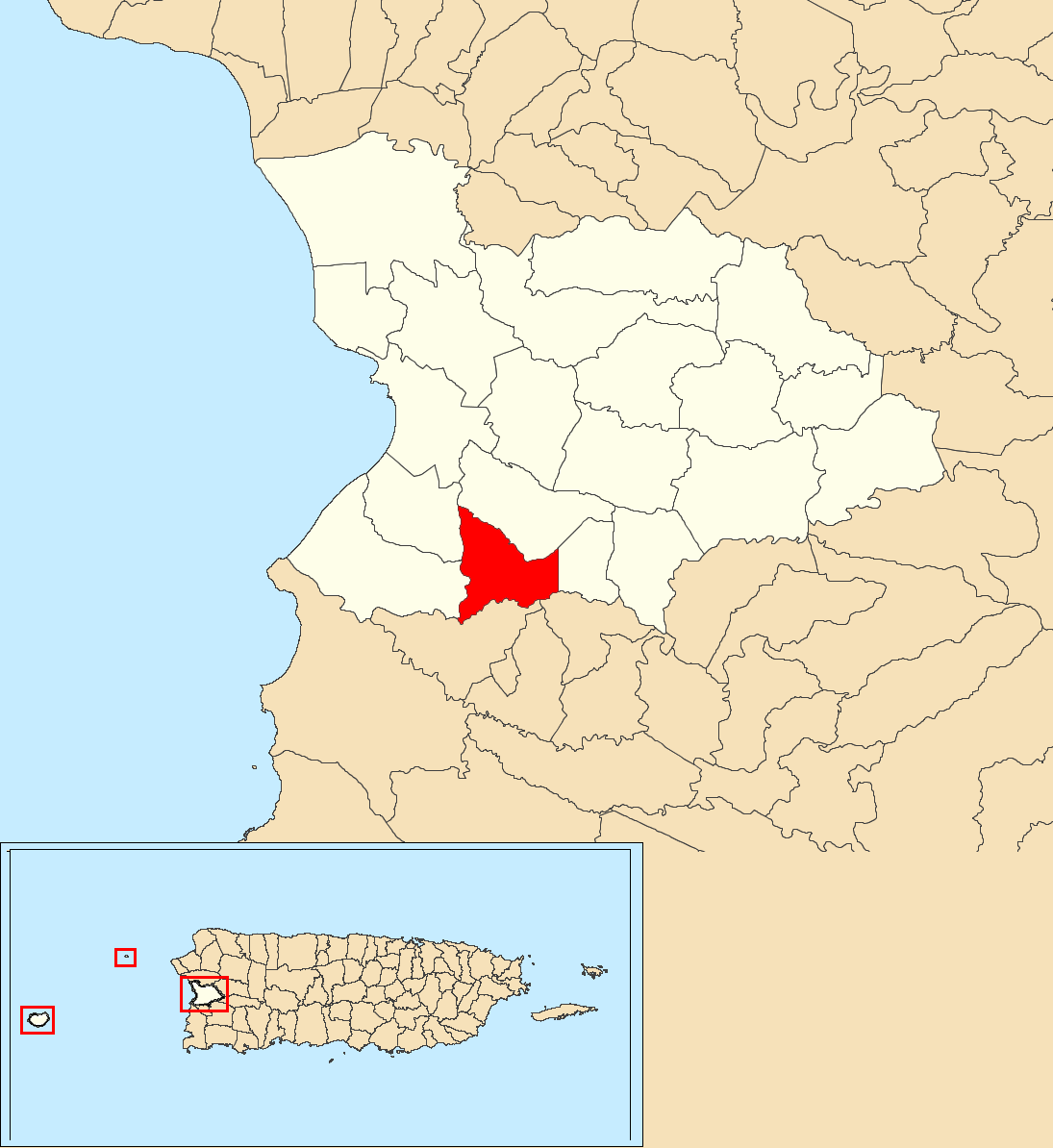 Río Hondo, Mayagüez, Puerto Rico locator map